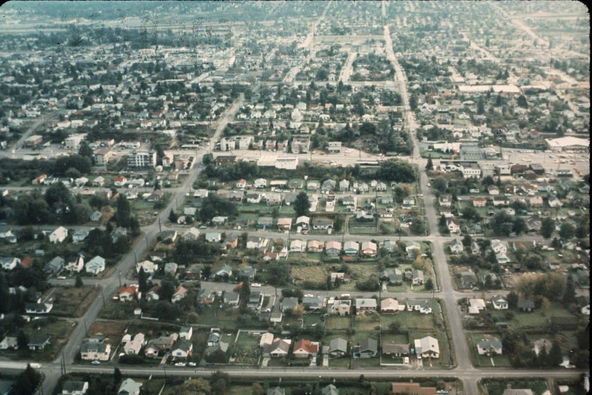 Aerial view of Greenwood, Seattle, Washington, U.S., 1969 Item 77899, Forward Thrust Photographs (Record Series 5804-04), Seattle Municipal Archives.